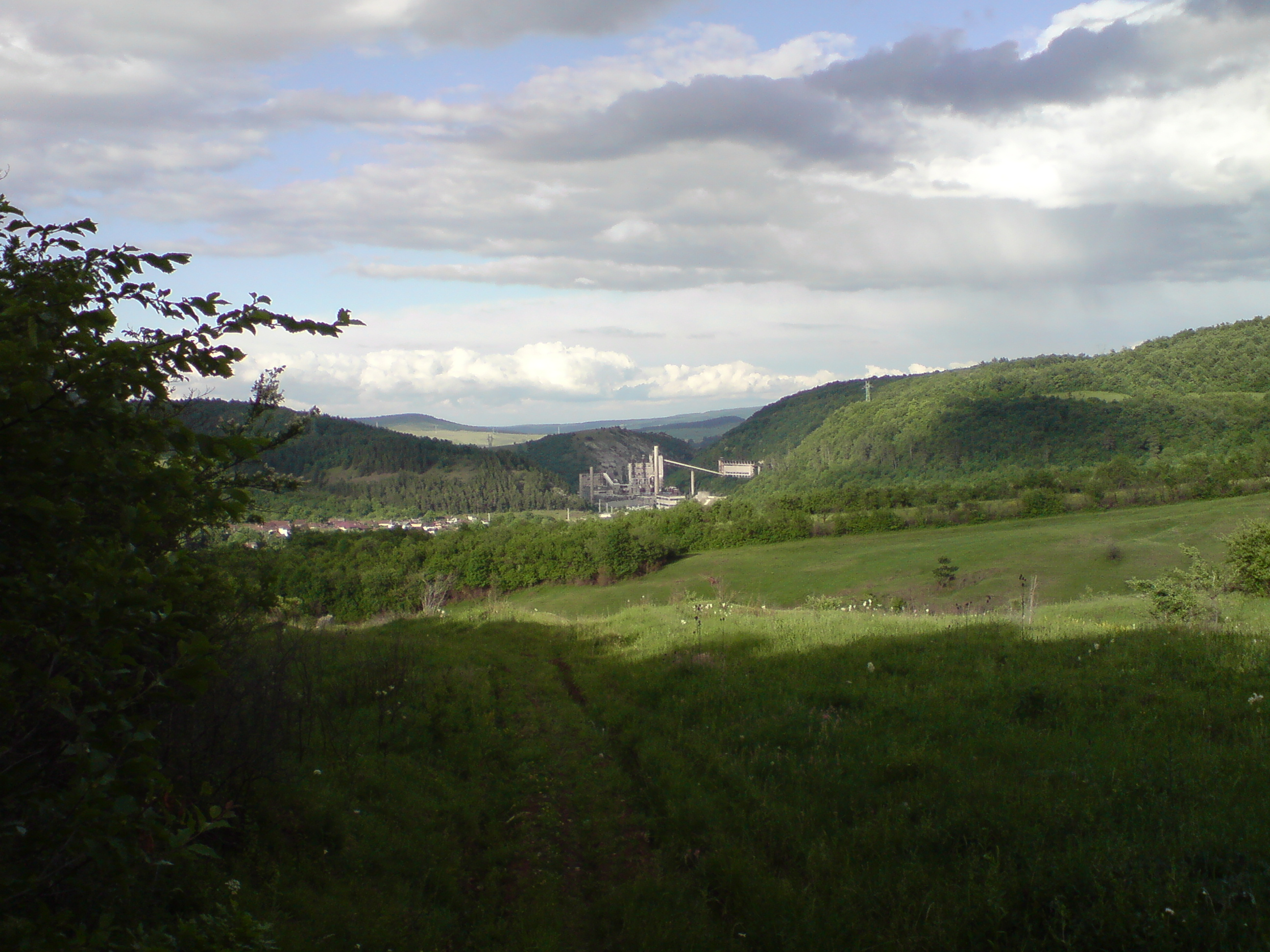 Zlaști village and its dolomite plant in the distance